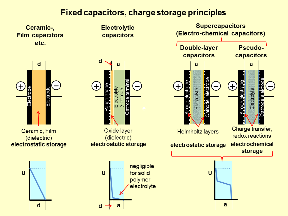 electric (static) and electrochemical charge storage principles of fixed capacitors